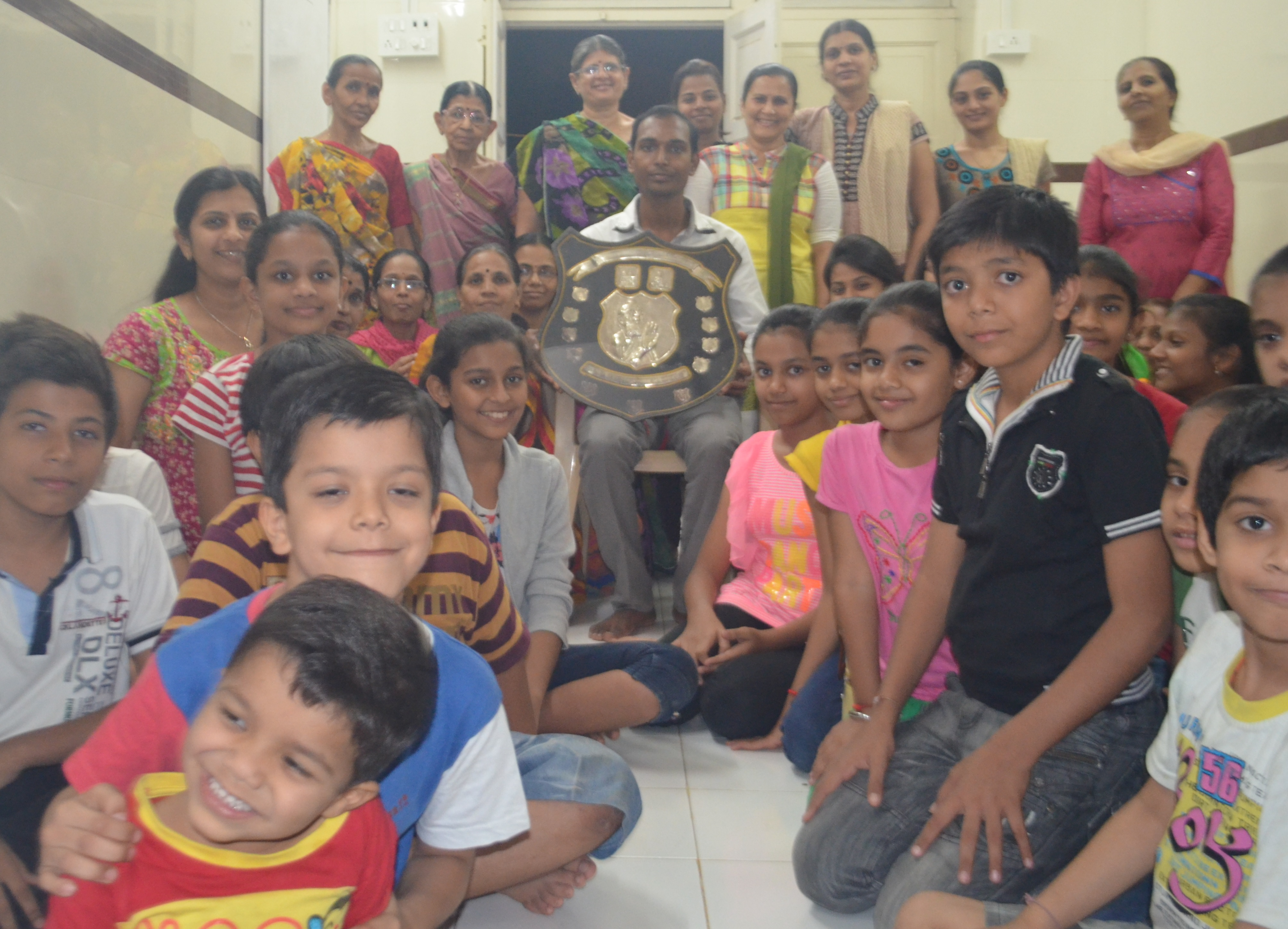 DamjiPadamshiPathshala